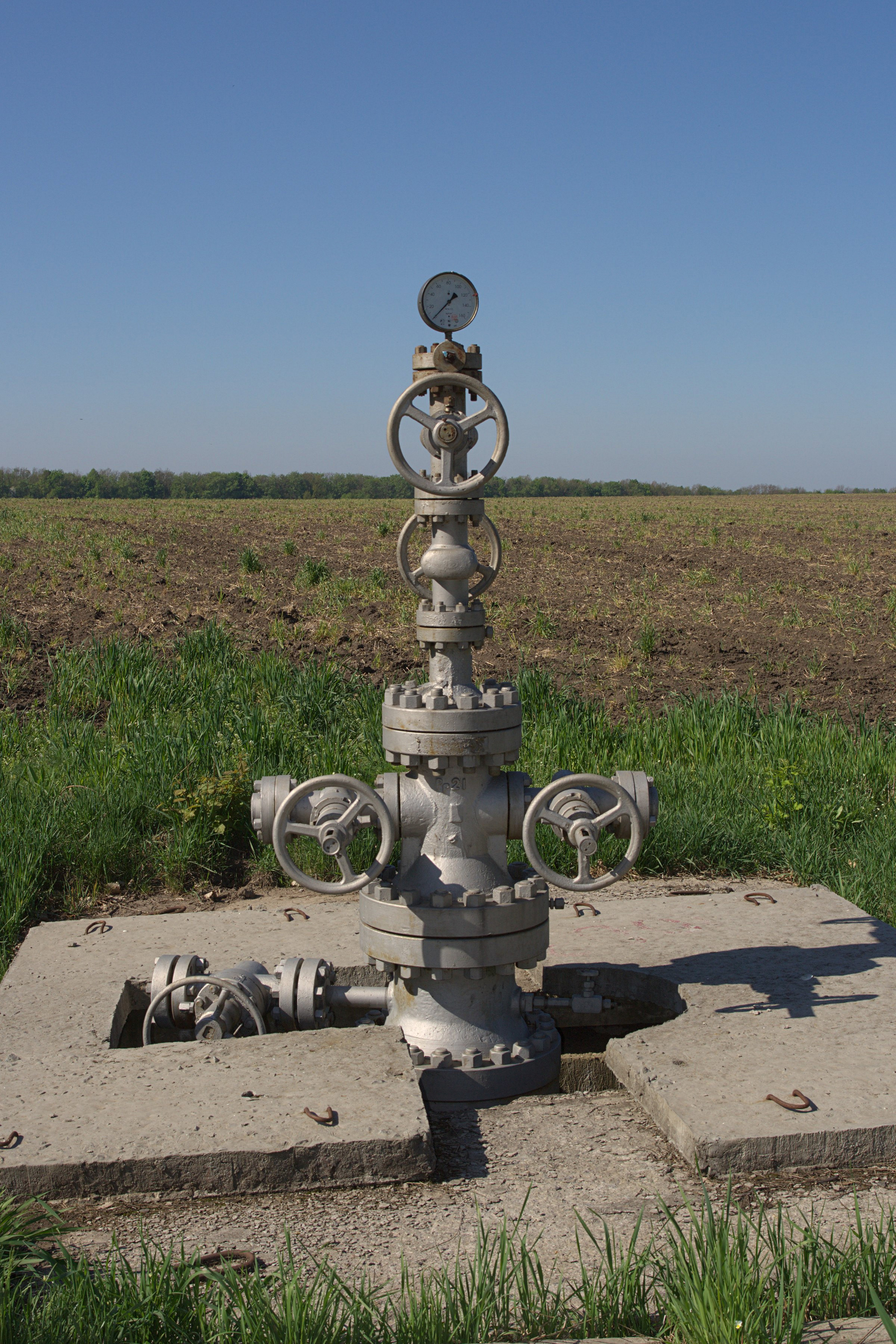 Solohiv natural gas field — Christmas tree